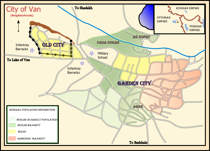 The City of Van. Map showing the neighborhoods in 1915.